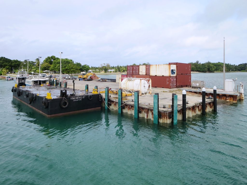 Barges are used to carry shipping containers to the jetty on Home Island, Cocos (Keeling) Islands. The ferry from West Island also ties up here.